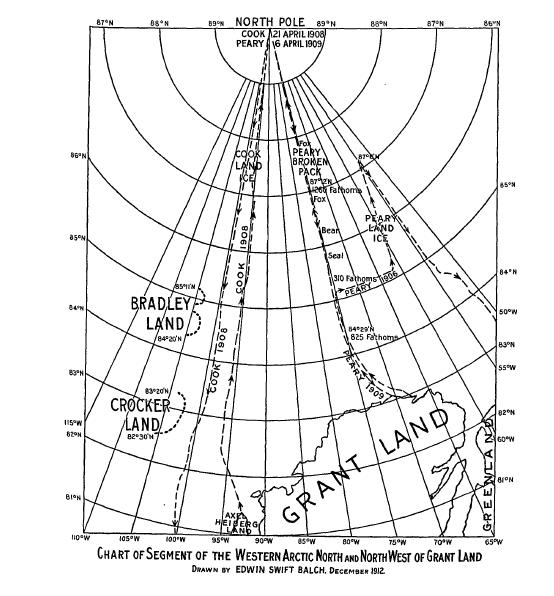 Map showing alleged location of Bradley Land and Crocker Land. From Edwin Swift Balch (1913), The North Pole and Bradley Land, p. 83.